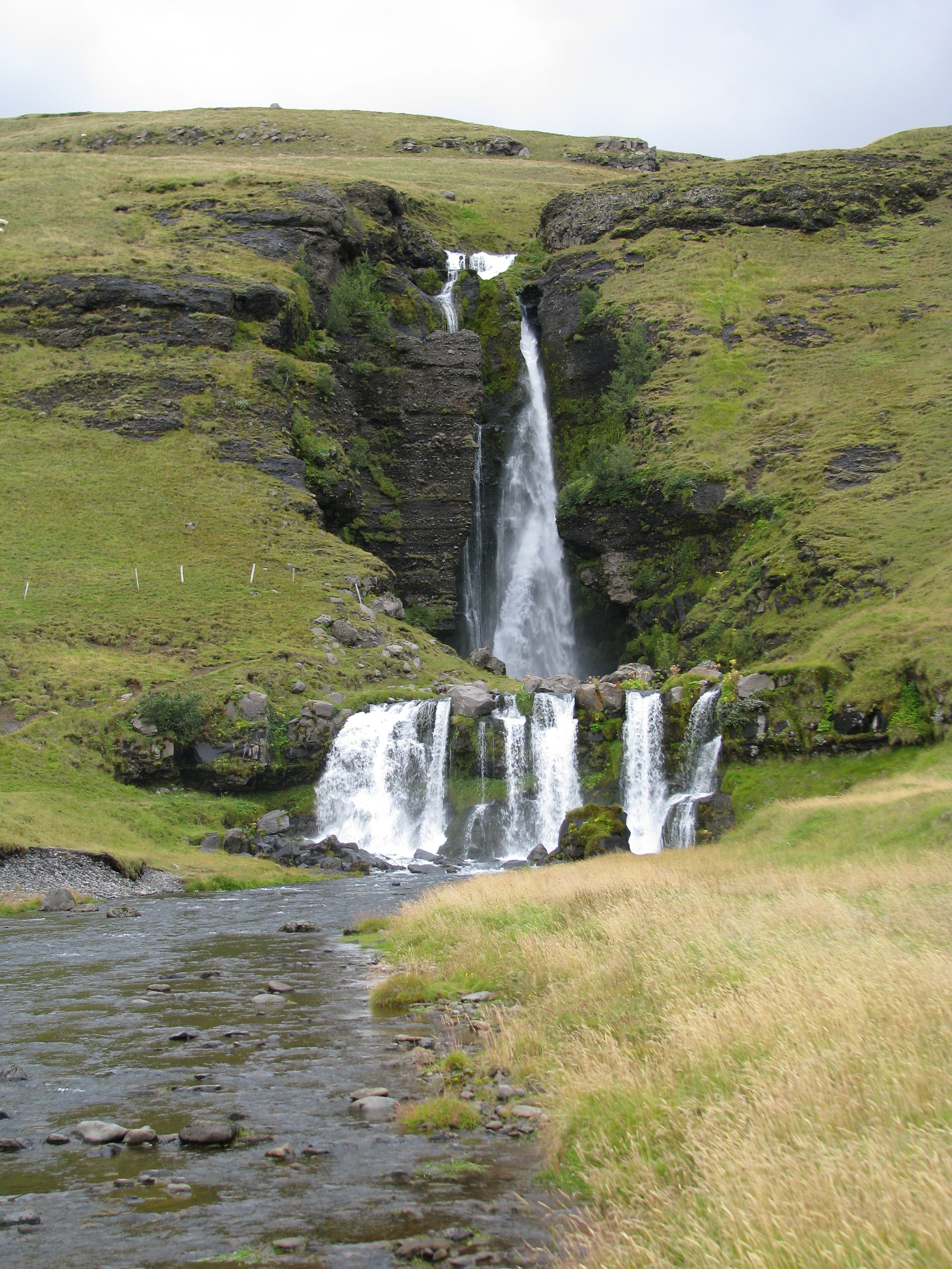 Merkjárfoss, Gluggafoss, waterfall, Iceland